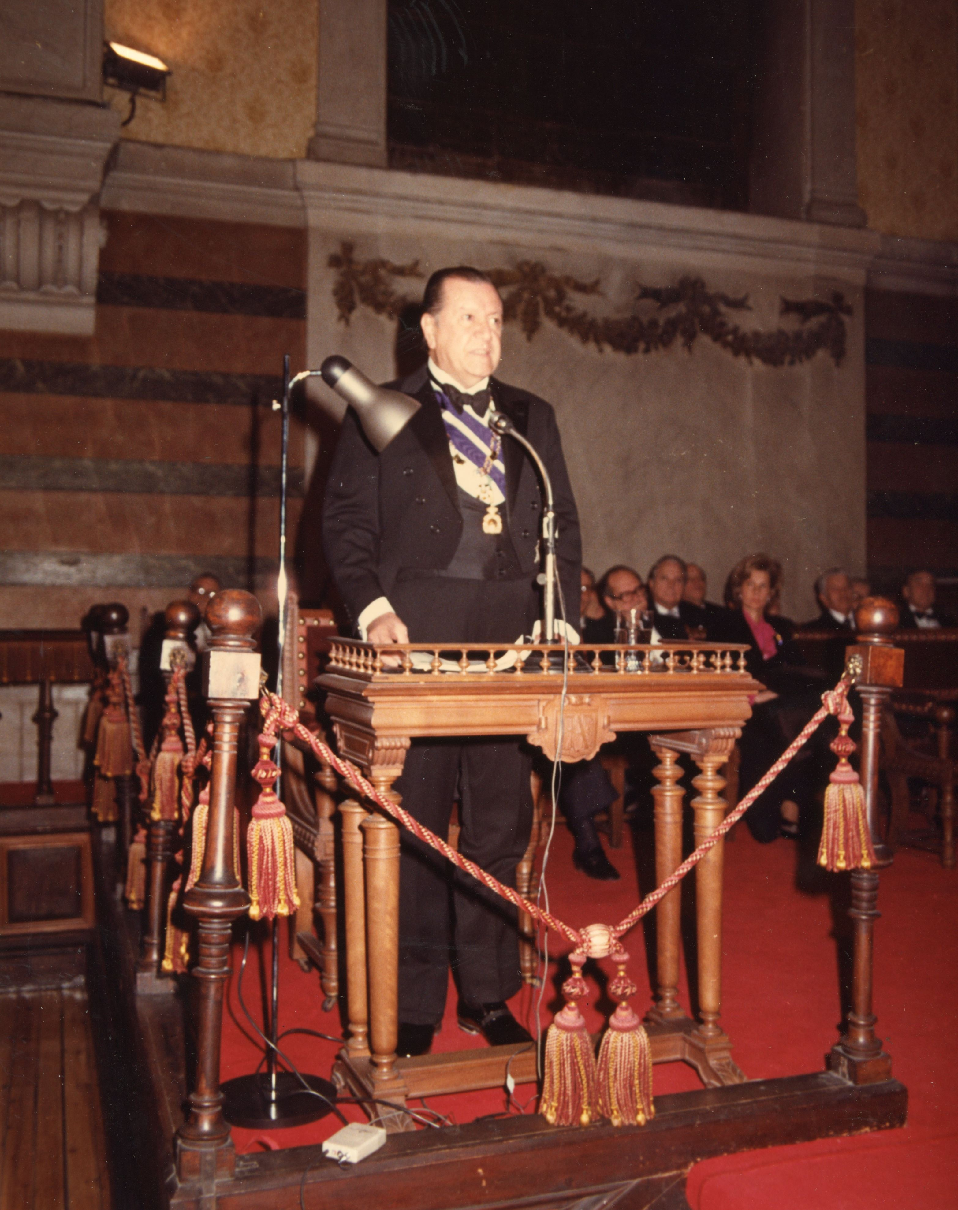 Rafael Caldera en la sesión solemne en honor a Andrés Bello de la Real Academia Española, Madrid.